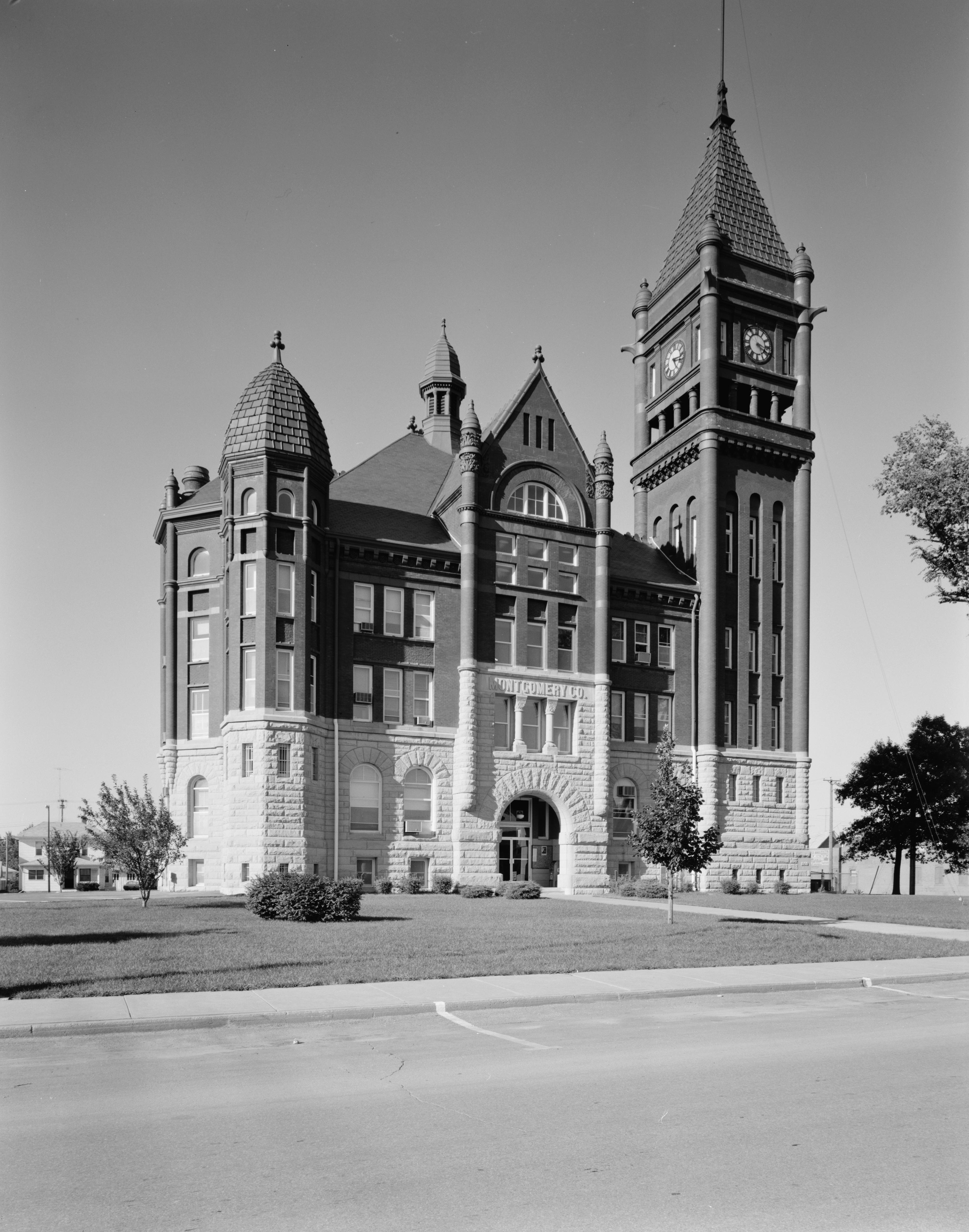 Front of the Montgomery County Courthouse, located at the intersection of Coolbaugh and Second Streets in Red Oak, Iowa, United States. Built in 1890, the courthouse is listed on the National Register of Historic Places.